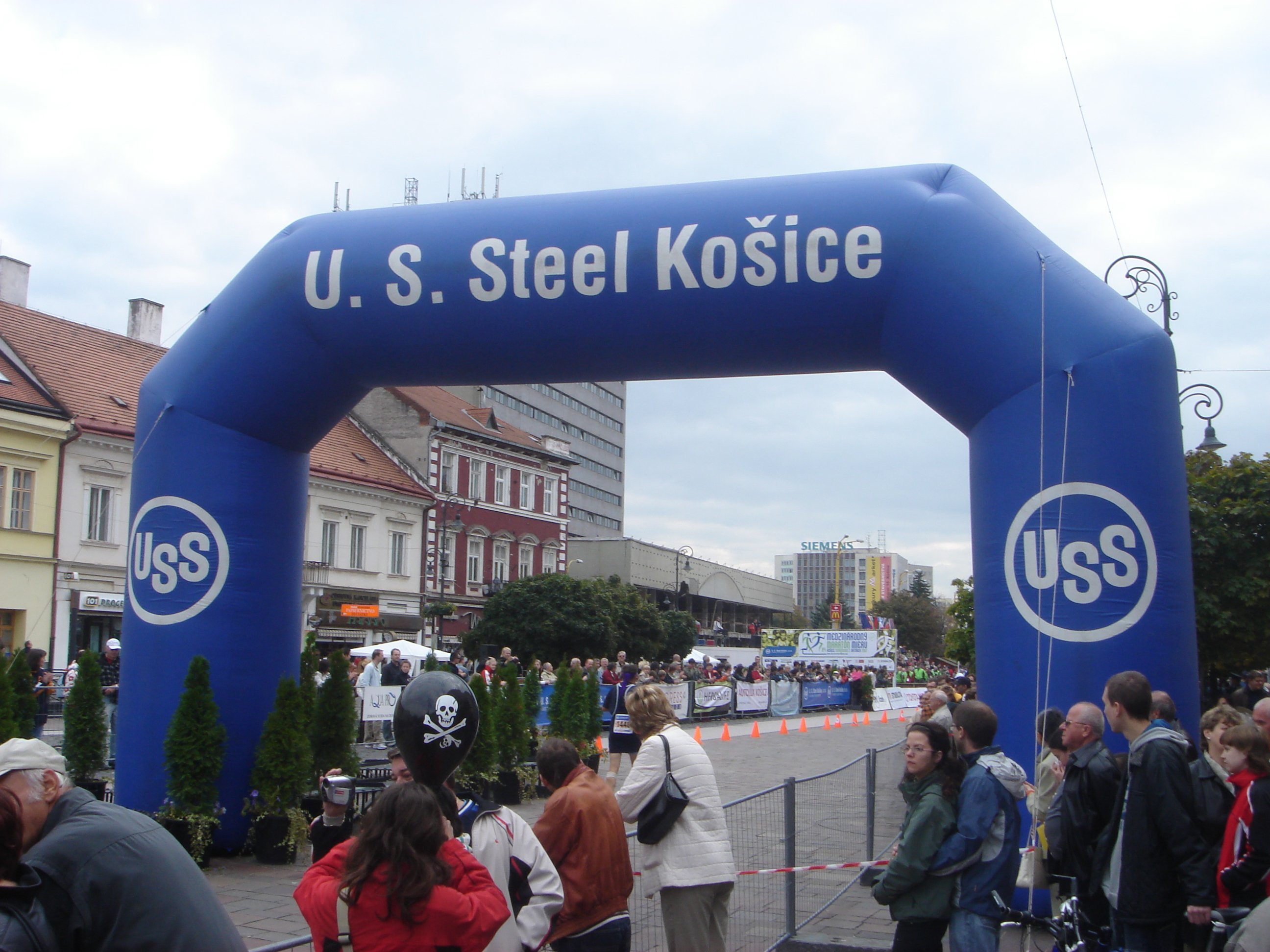 84th International Peace Marathon in Kosice, Slovakia